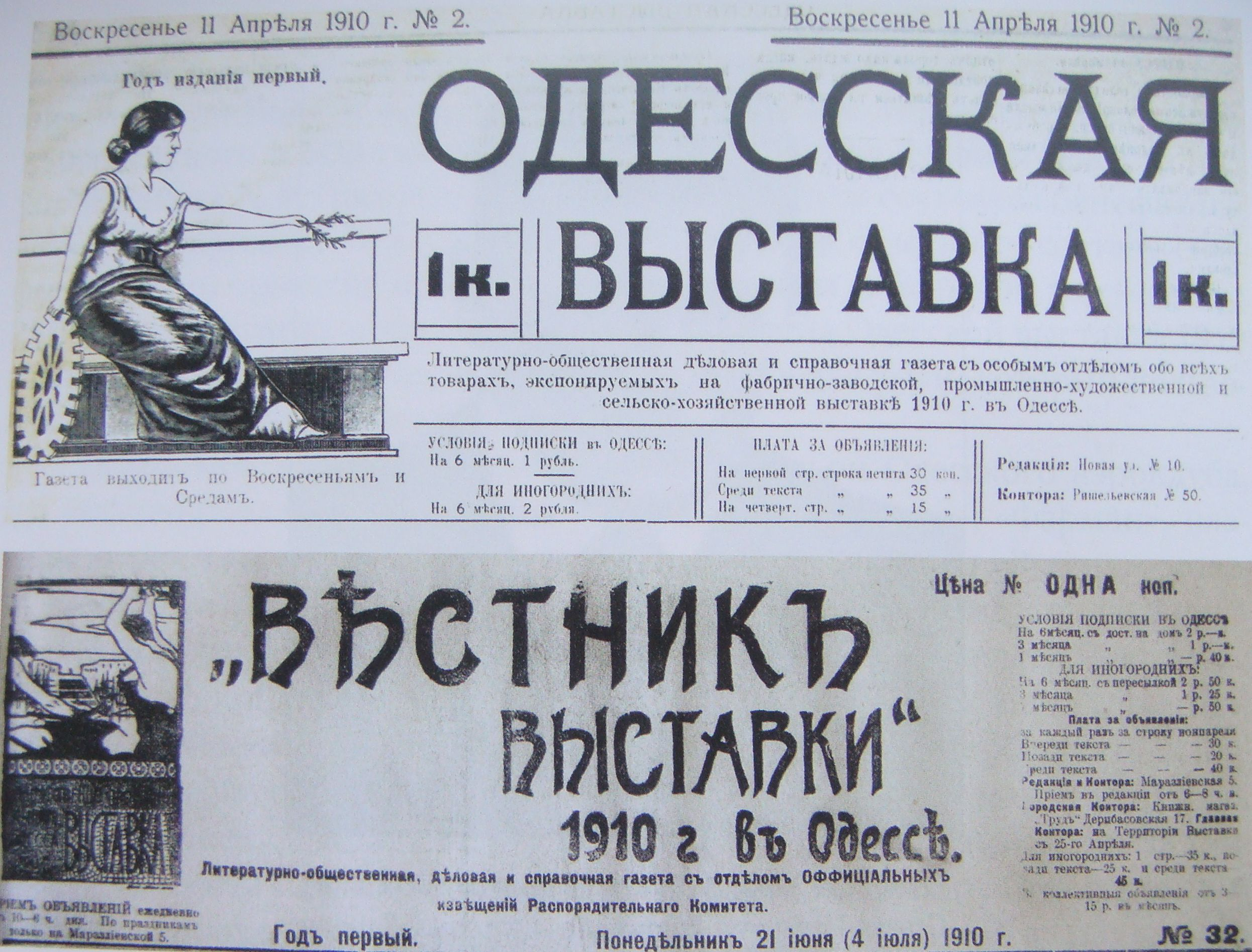 Newspapers of Odessa Art & Industry Exposition, 1910